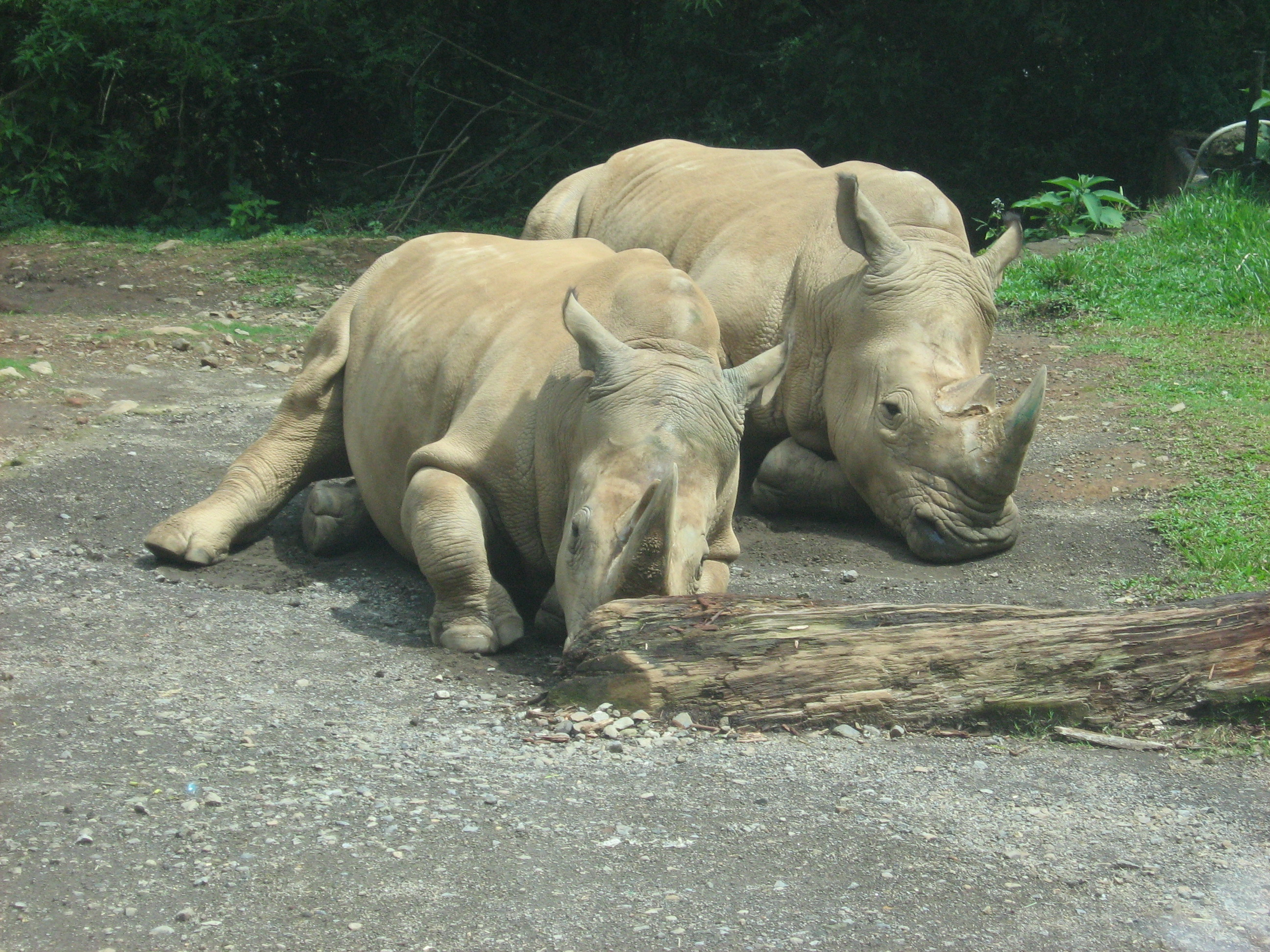 White rhinos in Taman Safari, Indonesia